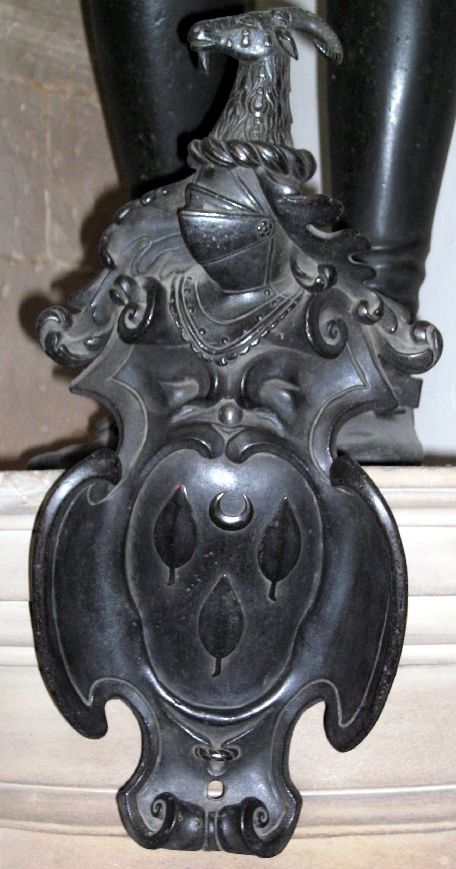 Leveson family coat of arms on memorial to Vice Admiral Richard Leveson (1570-1605). The leaves represent a pun on the family name, as the shield has "leaves on" it. However the name is actually pronounced "loosen". Wolverhampton St Peter's Collegiate Church.